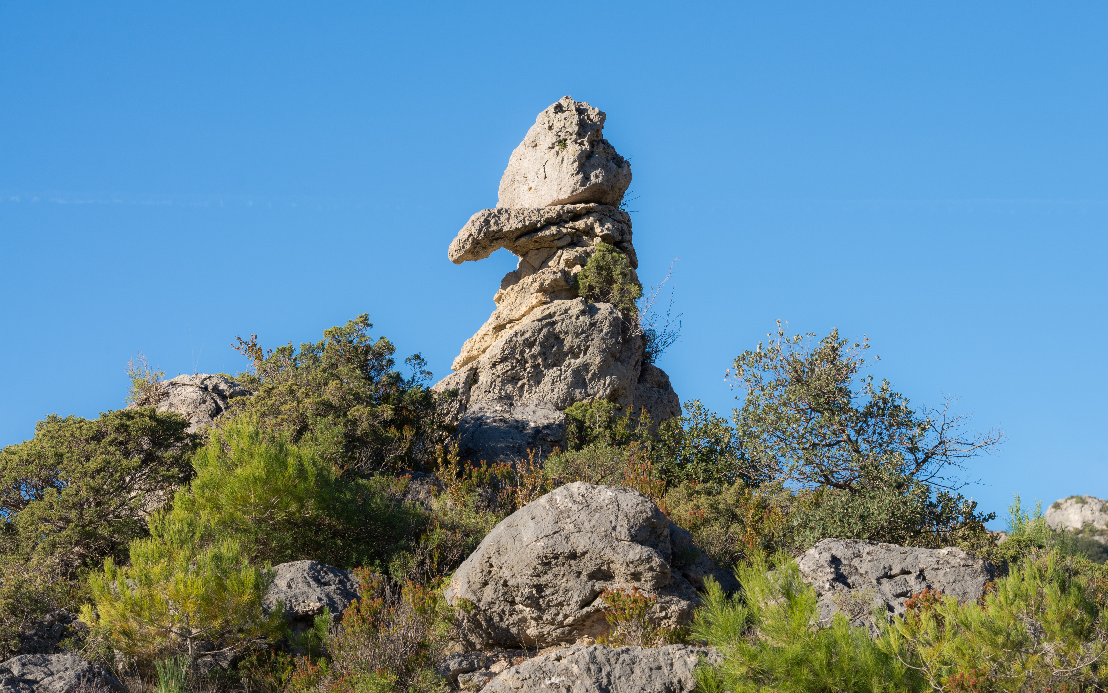 A sedimentary rock in the funny shape sculptured by the erosion. The "Cirque de Mourèze" is a steephead of whitch the chaotic appearance was made by the erosion of dolomite rocks. Mourèze, Hérault, France.